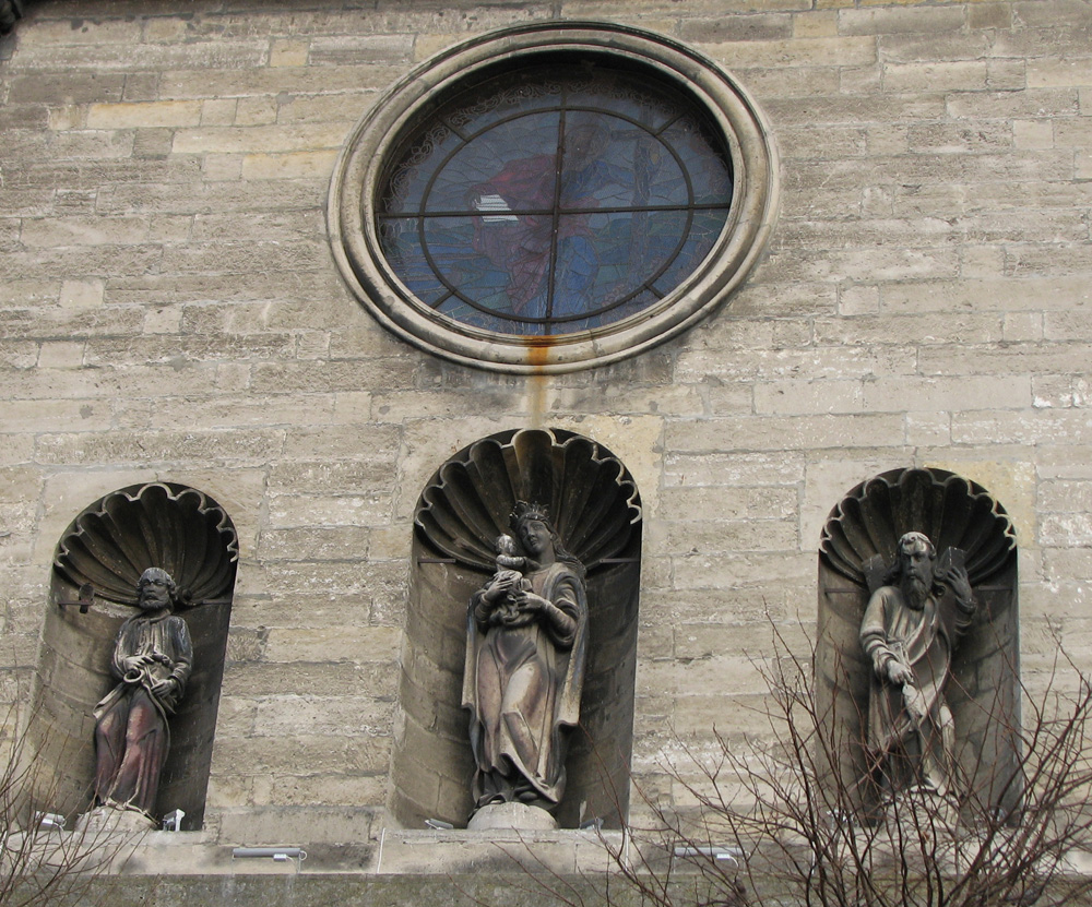 Bernardine church and monastery in Lviv